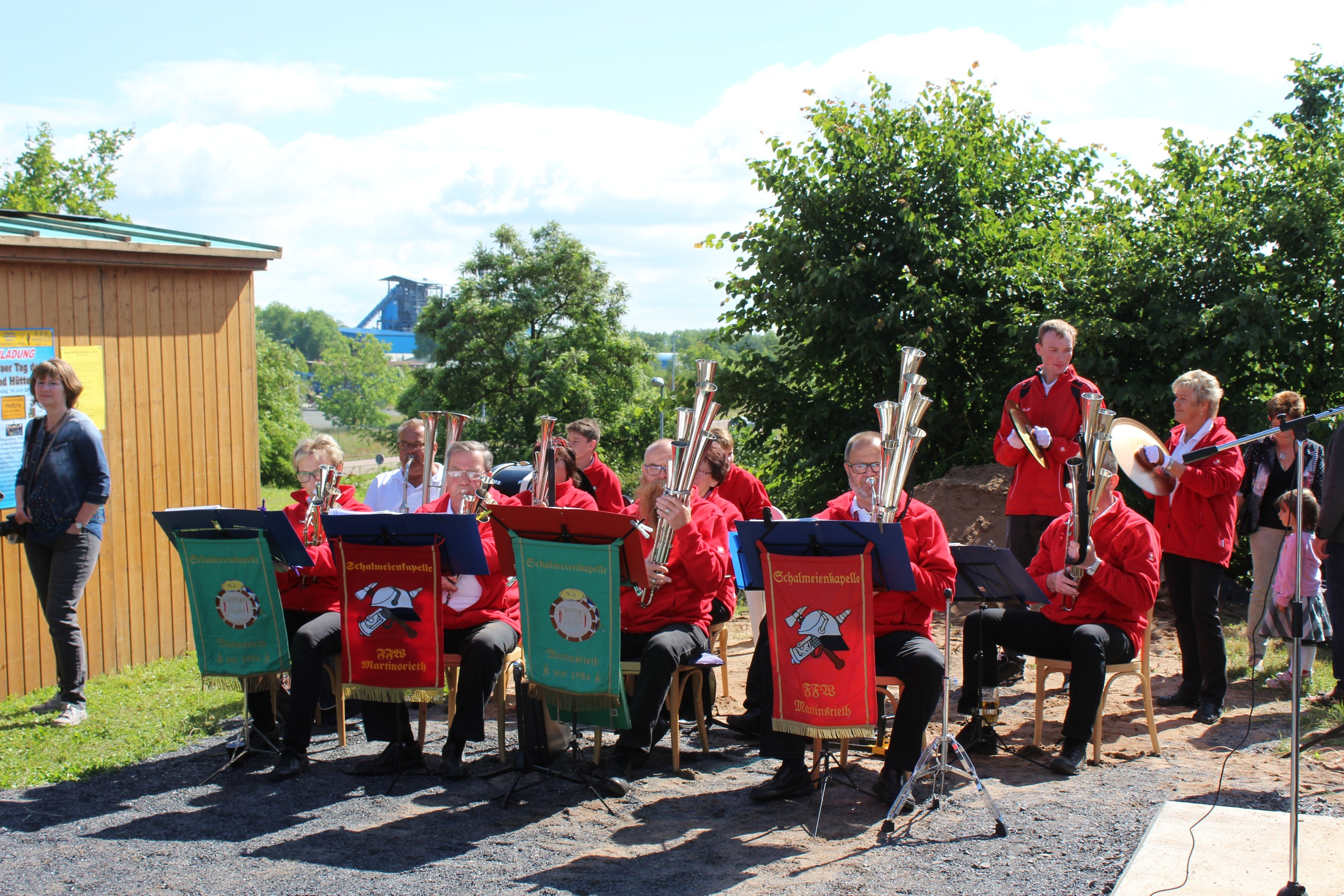 Helbra, the schawms band Martinsrieth